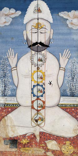 Yogin with six chakras, India, Punjab Hills, Kangra, late 1700s National Museum.